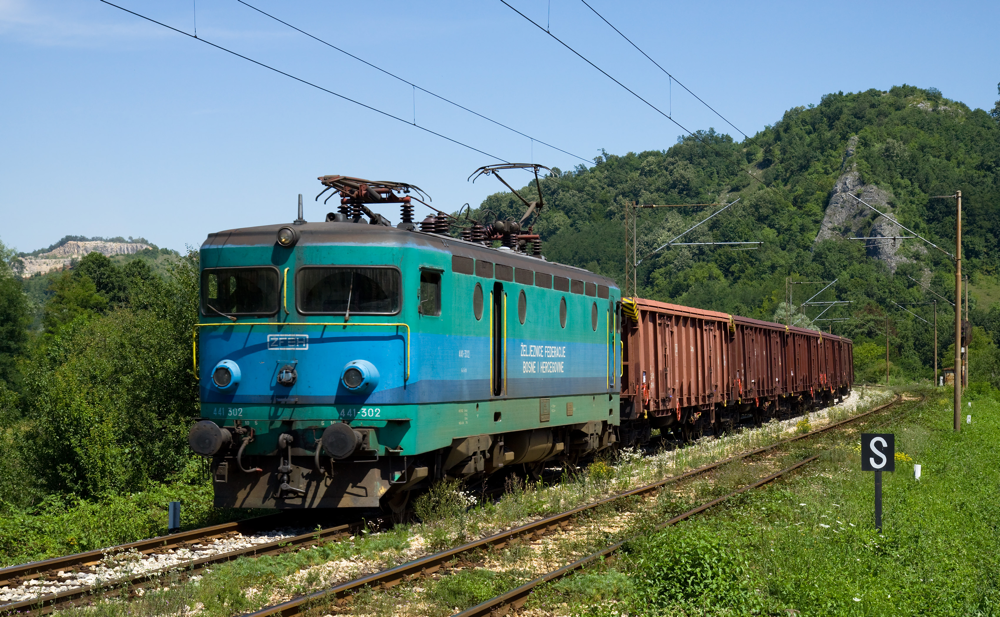 ŽBFH (former JŽ) class 441 with a freight train on the line from Doboj to Maglaj, at Jabucic Polje